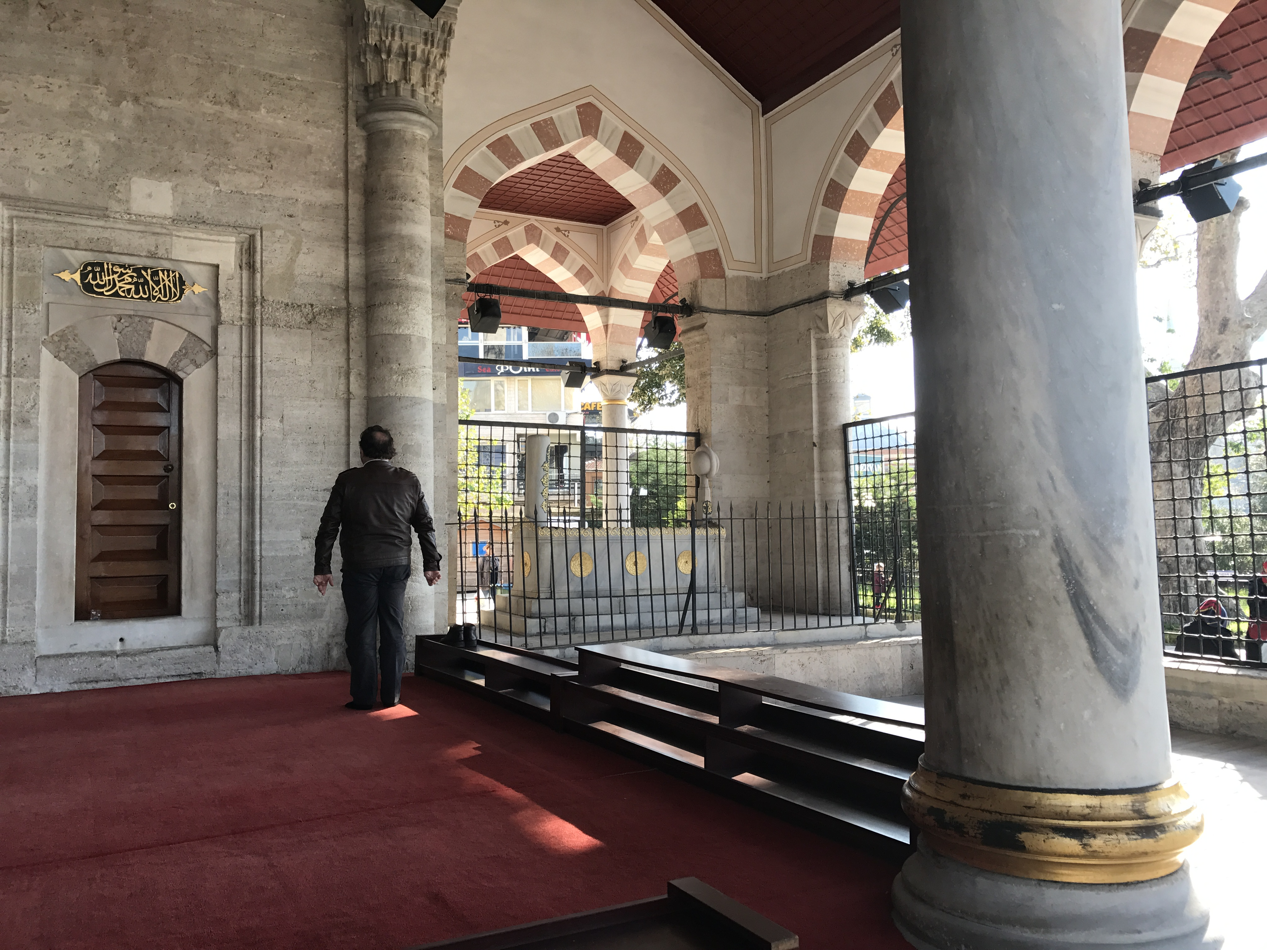 Mihrimah Sultan Mosque (built 1548), is an Ottoman mosque located in the historic center of the Üsküdar municipality in Istanbul, Turkey. It is the first of two mosques built by Mihrimah Sultan, daughter of Sultan Suleiman the Magnificent and wife of Grand Vizier Rüstem Pasha. It was designed by Mimar Sinan and built between 1546 and 1548.